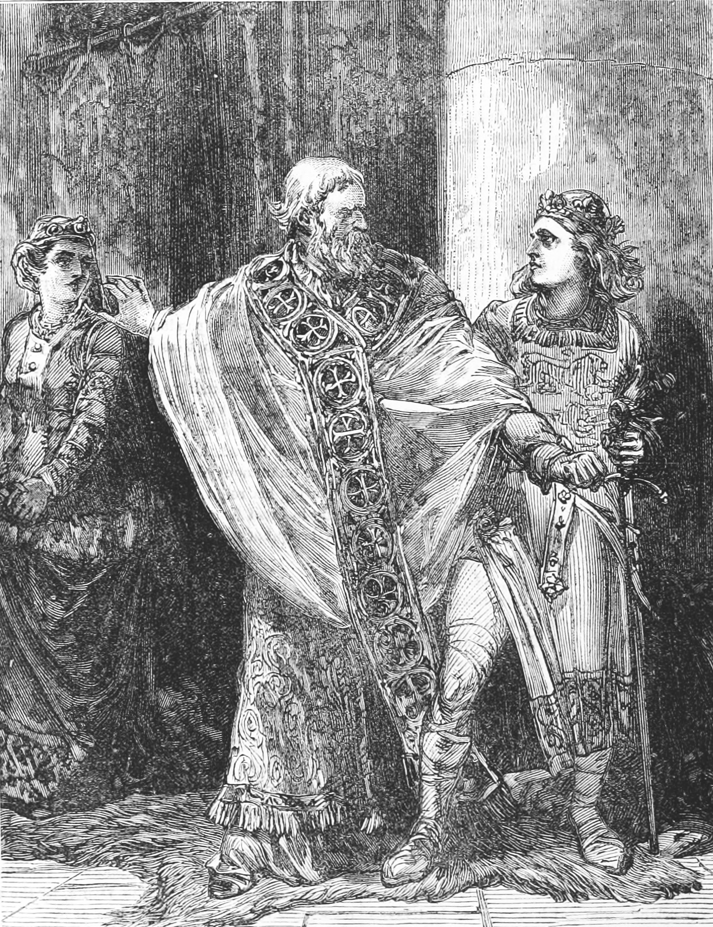 number = page #, image title = caption below image.